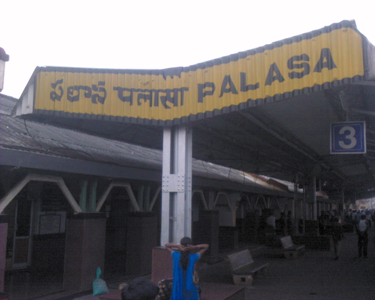 Palasa Rail station